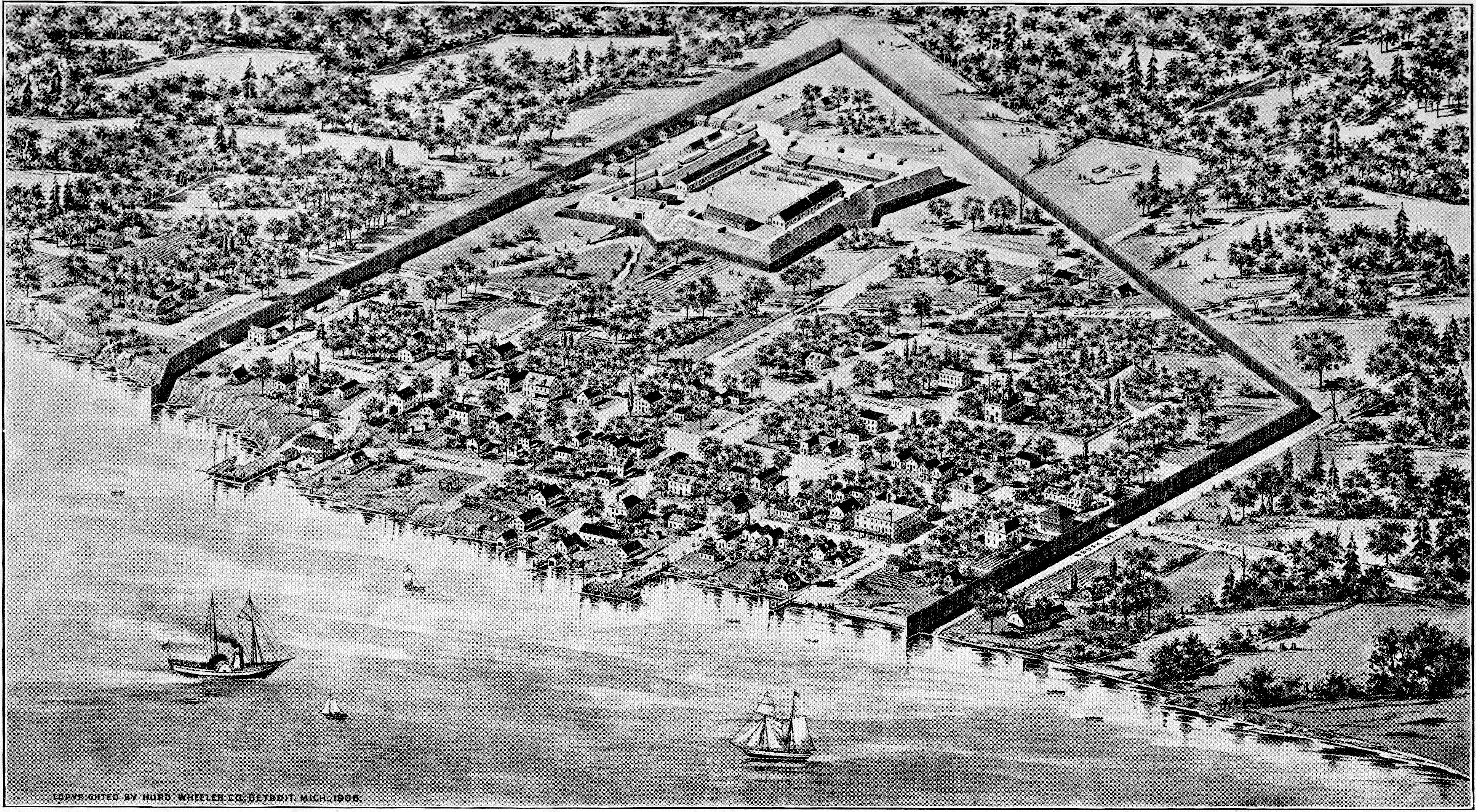 Oblique bird's eye view of central Detroit in 1808. Originally captioned: "Detroit 1818: historically correct in every point of detail." Presented with 1908 illustration of Detroit. 2 picture maps mounted on 1 sheet; 54 x 39 cm.